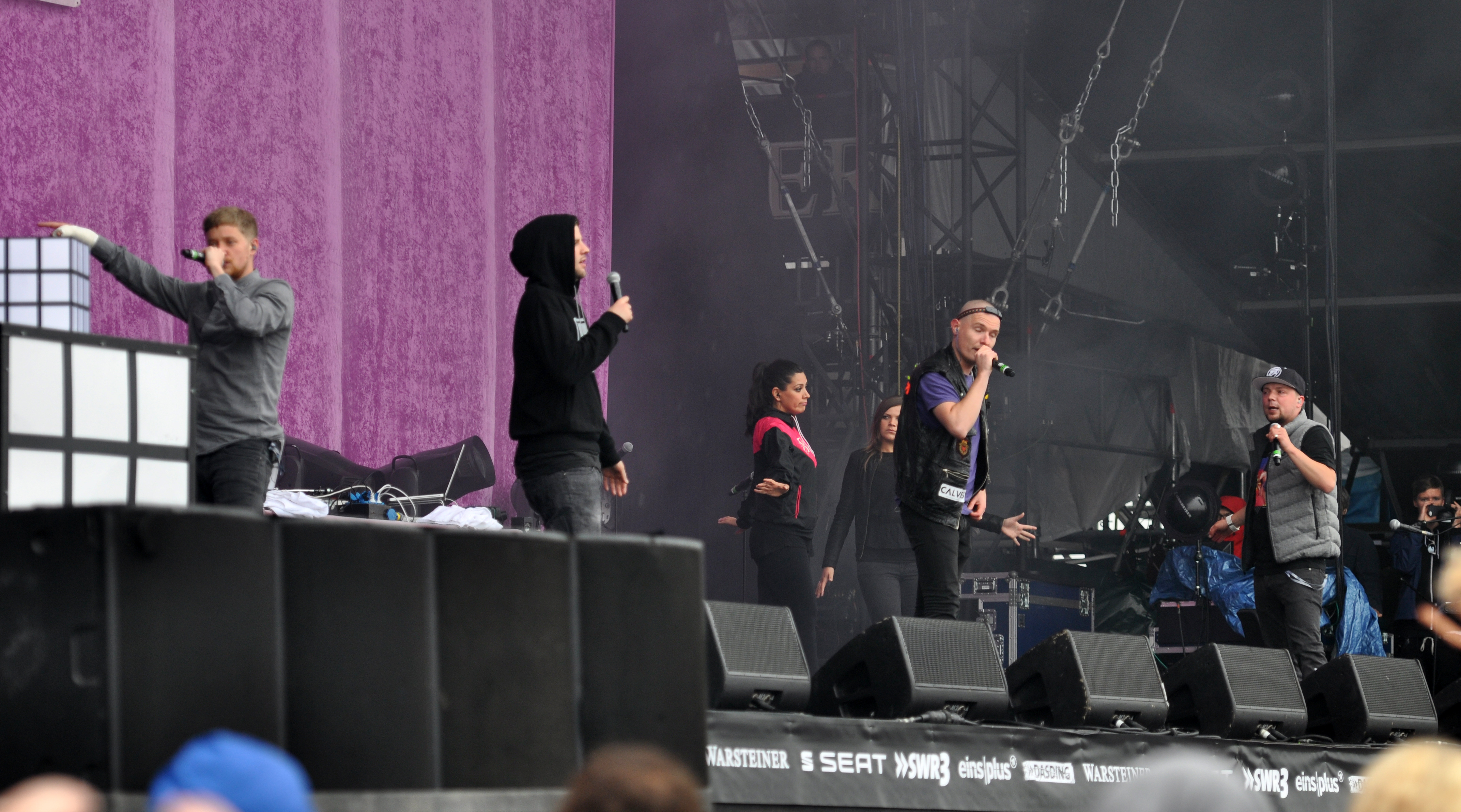 Die Orsons at Rock am Ring 2013